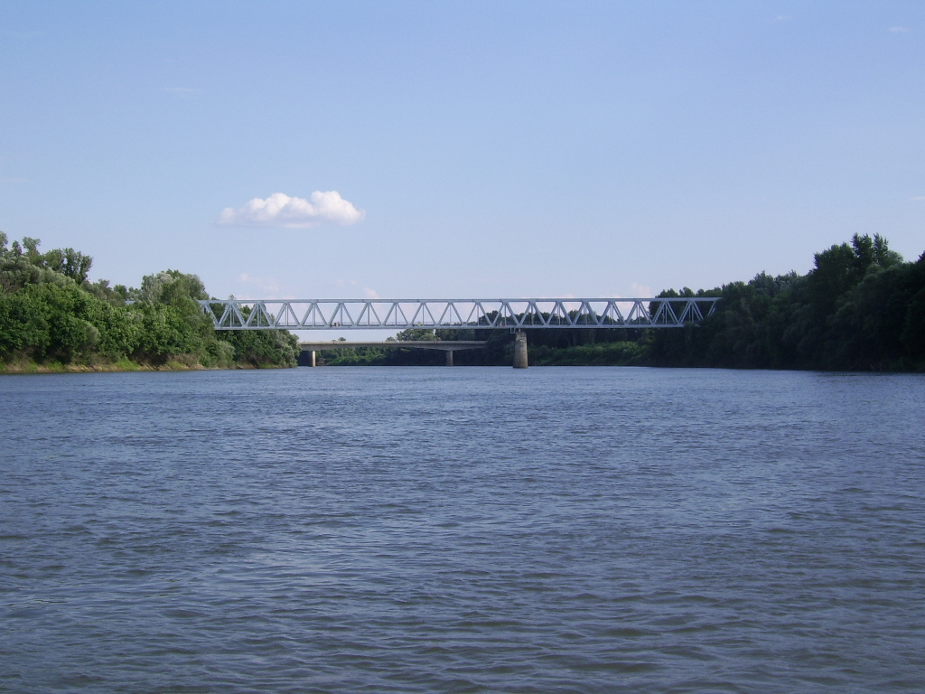 Bridges at Csongrad on the Tisza